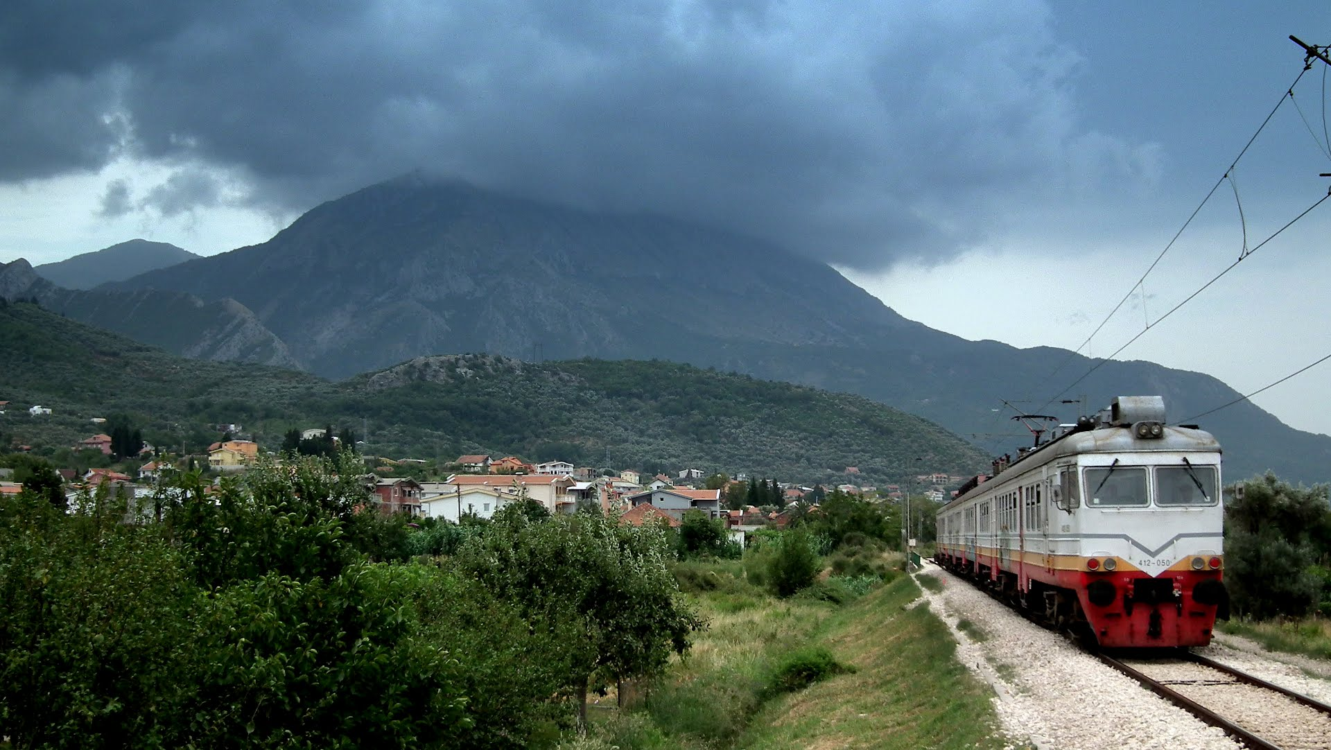 The train station of Šušanjlabel QS:Lit,"La Stazione ferroviaria di Šušanj" label QS:Lru,"Электричка от станции Шушань" label QS:Len,"The train station of Šušanj"